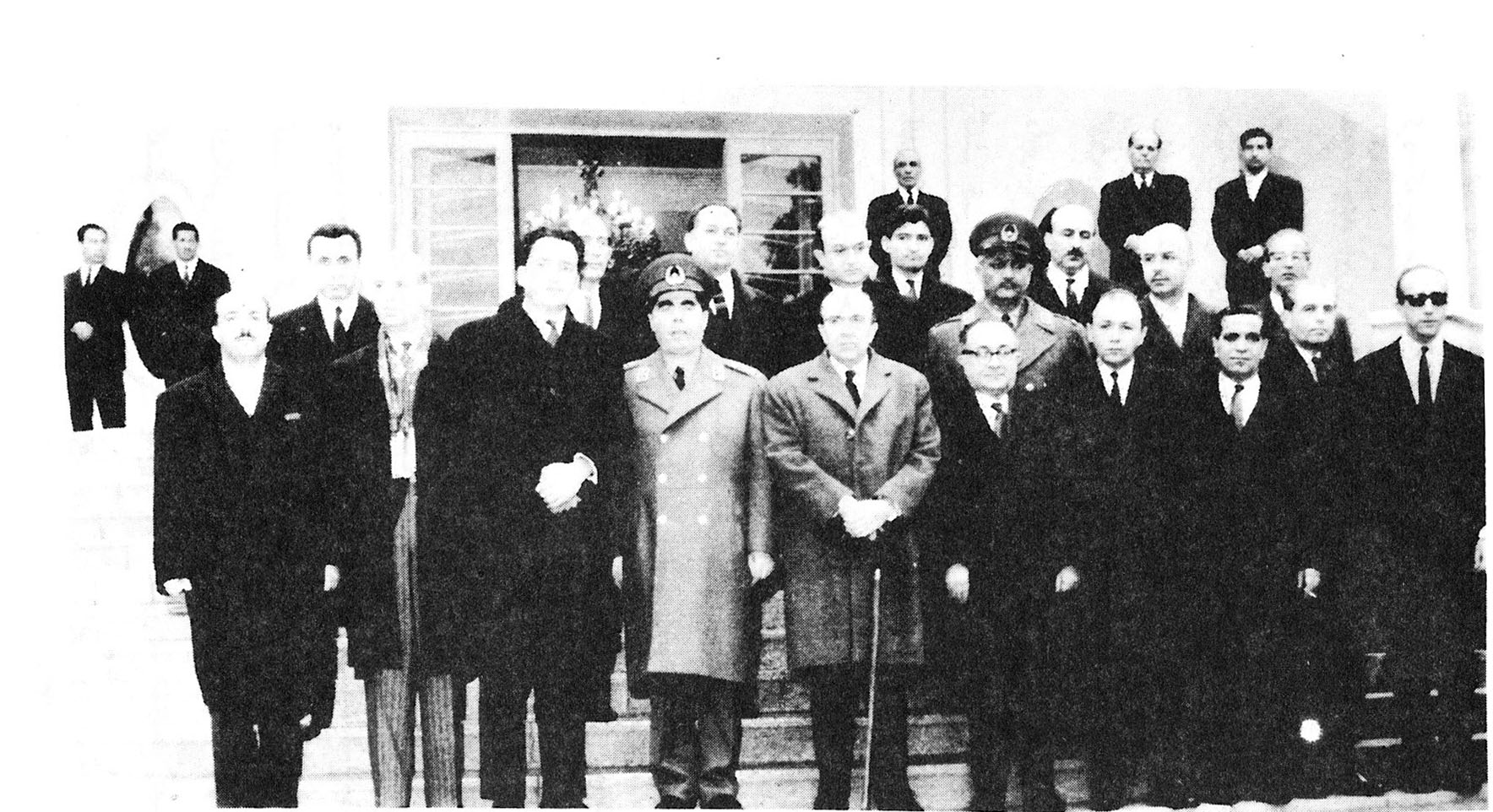 First Cabinet Prime Minister Amir Abbas Hoveyda (from right, first row: Dr. Javad Mansoury (Advisor), Bagher Ameli (Justice), Ataollah Khosravani (Labour), Manouchehr Goudarz (Advisor), Dr Mohammad Nasiry (Advisor), Amir Abbas Hoveyda (Prime Minister), General Sanii (Defense), Drl Alikhani (Economy), Dr. Javad Sadr (Interior), Mansour Rohani (Water, Electricity); second row: Hosain Shalchian (Transport), Mehrdad Pahlbod (Culture and Arts), Dr. Kashfian (Advisor), General Riahy (Agriculture), Gholam-Reza Nikpay (Vice PM), Dr. Nahavandy (Housing), Mohandes Sotoudeh (PTT), Naser Yeganeh (Advisor), Dr. Ghasem Rezaii (Vice PM)